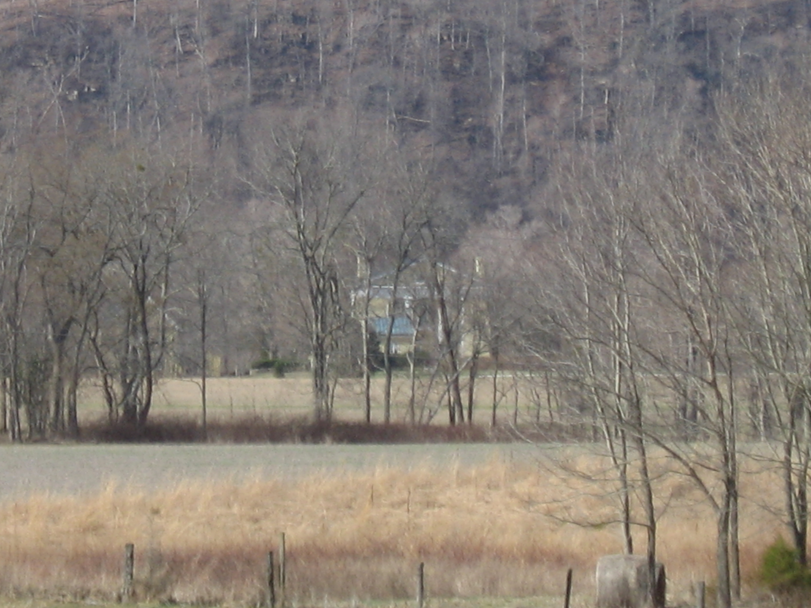 Distant view of the Kintner-Withers House, located at 15000 Kintner Bottoms Road south of Laconia in Boone Township, Harrison County, Indiana, United States. A plantation house built along the Ohio River in 1837, it is listed on the National Register of Historic Places. Located back a long lane, the house cannot be photographed from a more convenient location without engaging in trespassing.